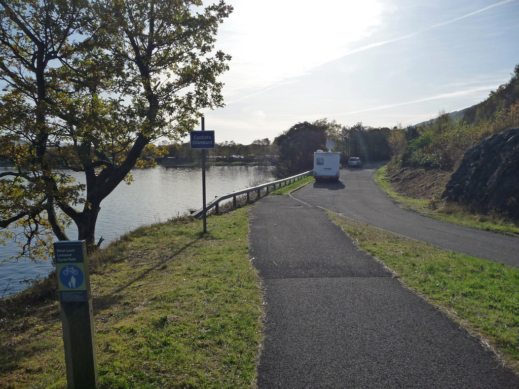 Cycle path near Inverbeg The West Loch Lomond cycle path joins a lay-by off the A82, occupied by several motor homes. The 'cyclists dismount' sign is patronising and pointless.